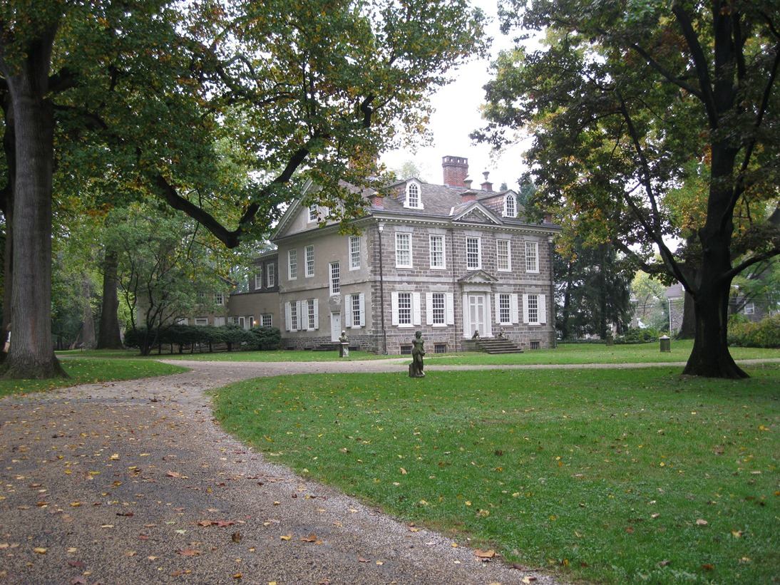 Photo shows Cliveden, also known as the Chew House, at 6401 Germantown Ave, Philadelphia, PA 19144. View is toward the east.